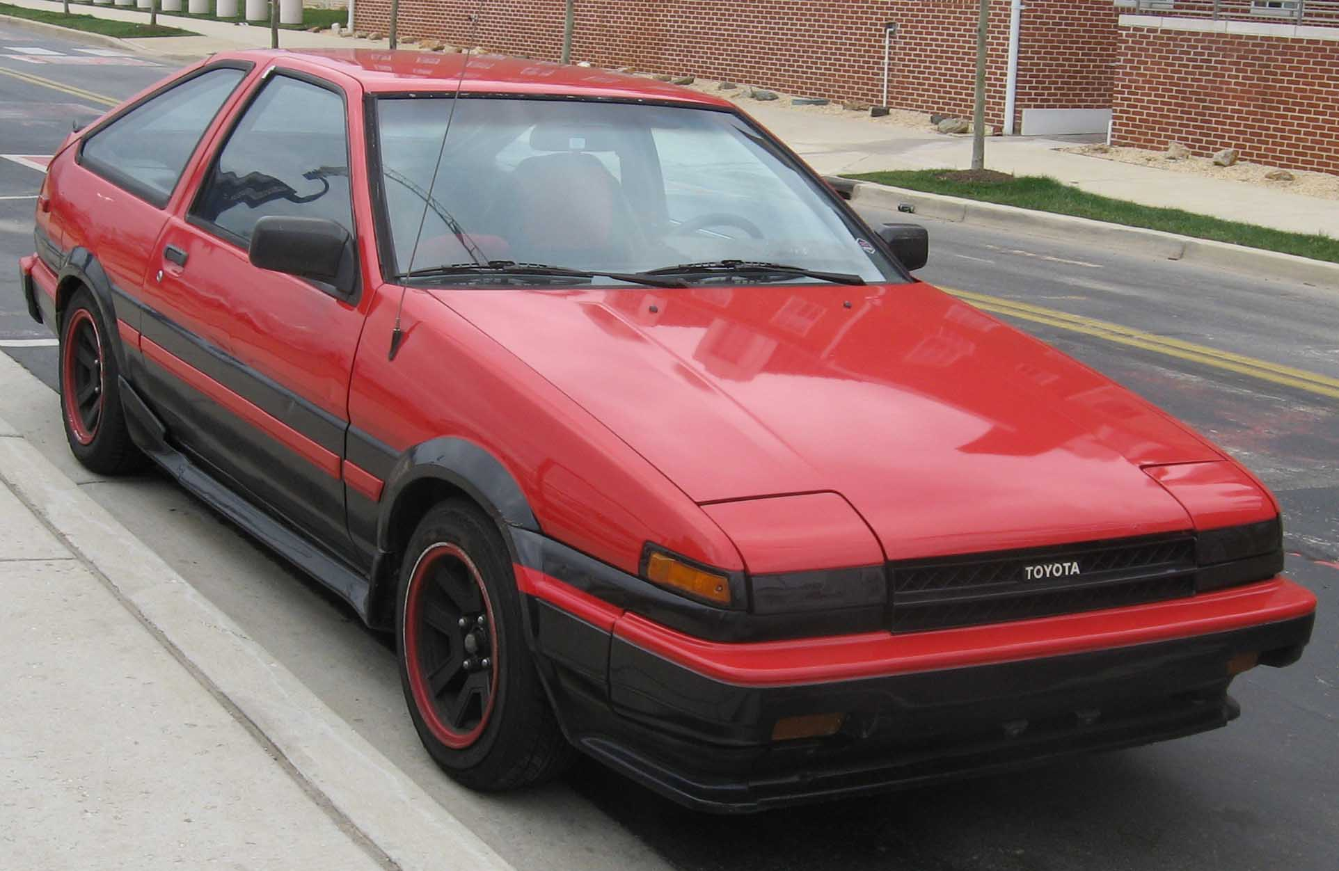 1983-1987 Toyota Corolla GT-S Twincam AE86 photographed in College Park, Maryland, USA.